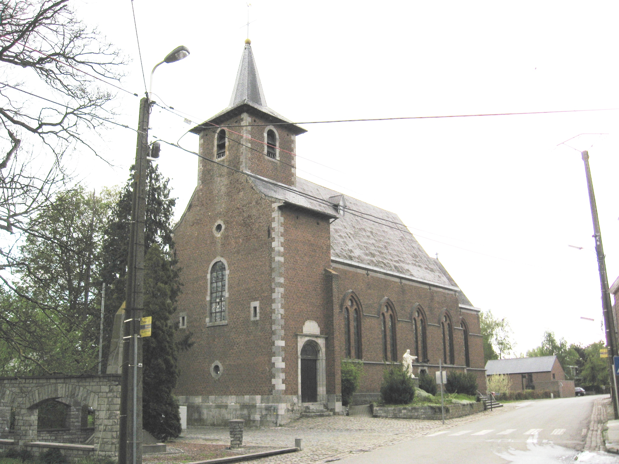 Church of Saint Remigius in Lens-Saint-Remy, Hannut, Liège, Belgium